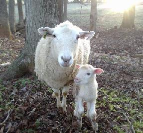 Ewe and lamb taken at the NCSU Small Ruminant Educational Unit